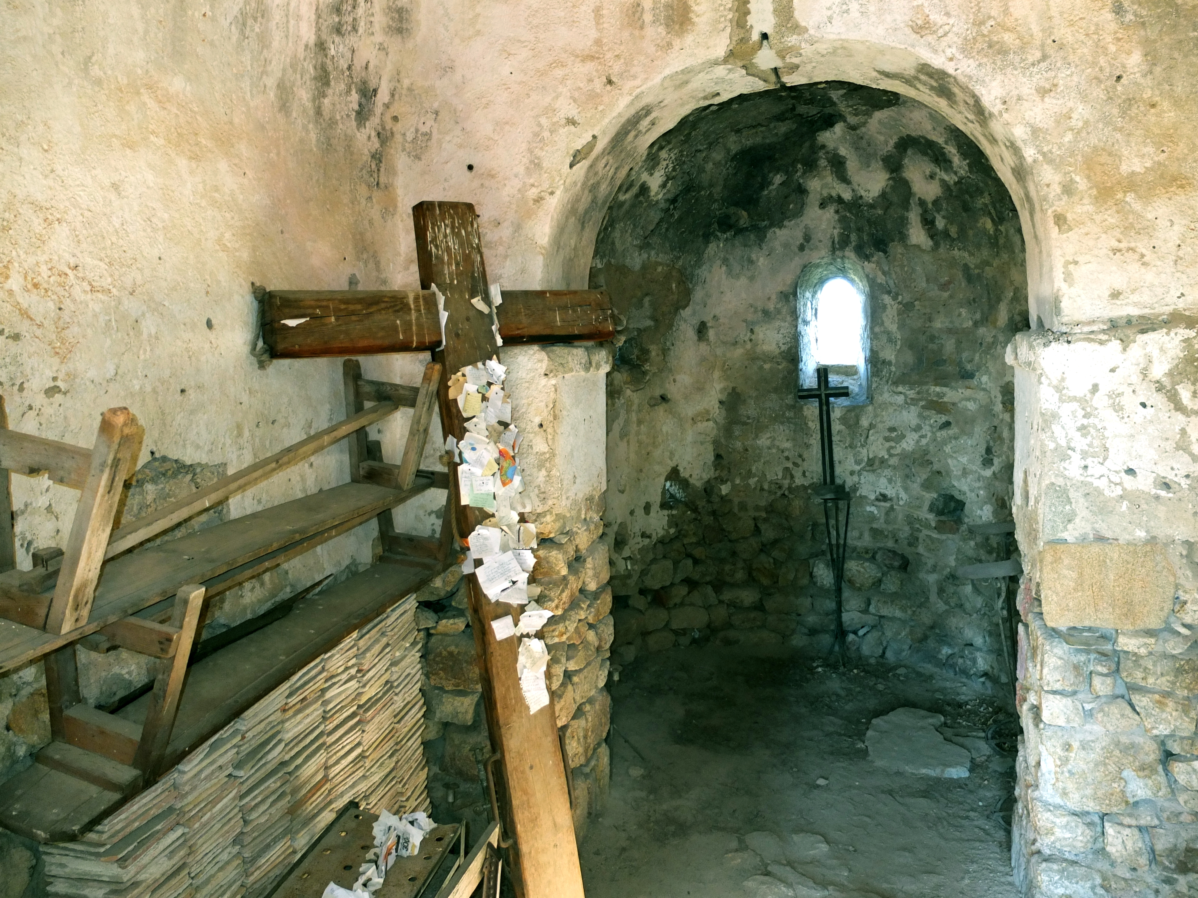 Interior of the Chapel Saint-Jérôme d'Argelès (10th century), Argelès-Plage, France (view from W)